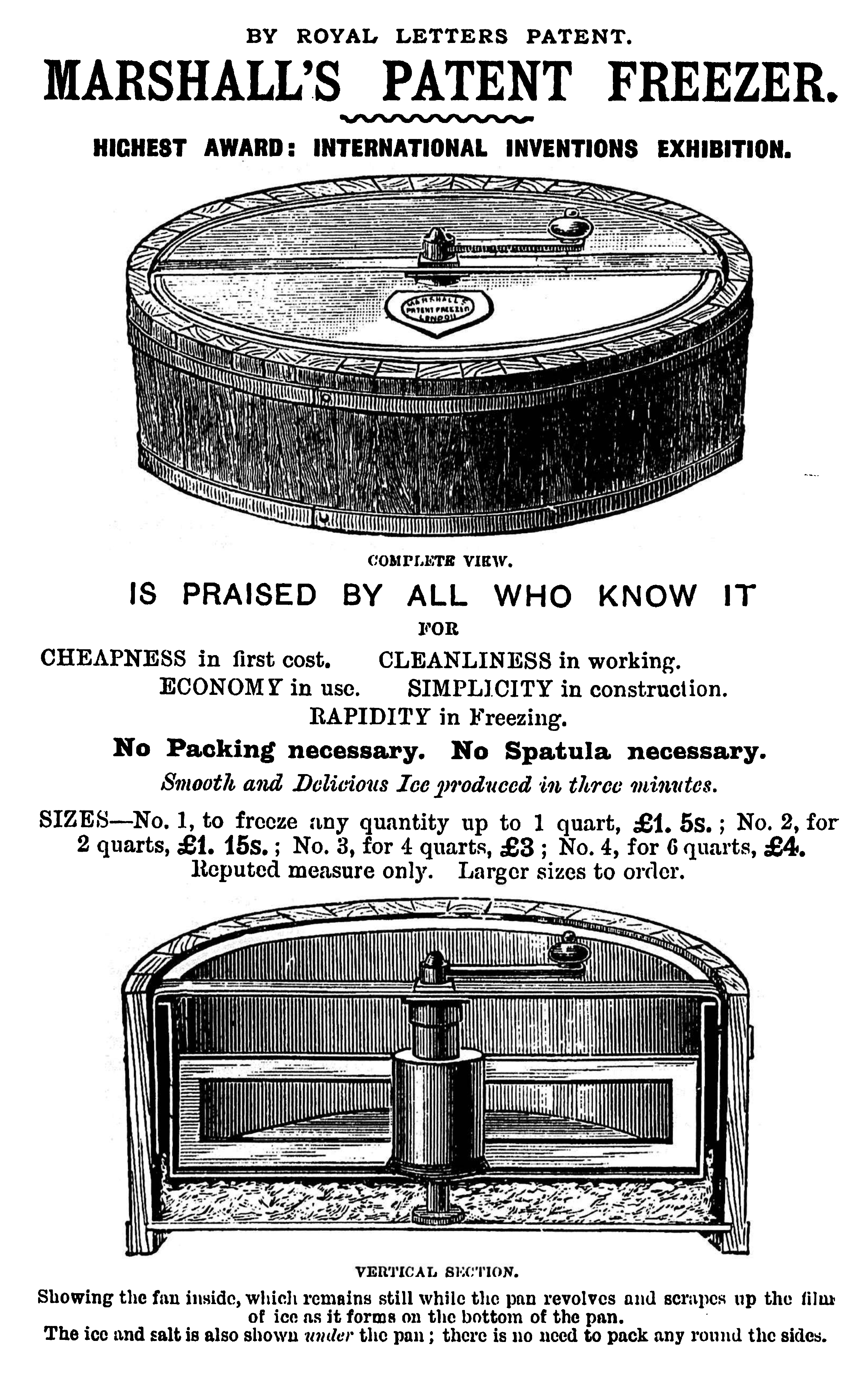 Advertisment for Agnes Marshall's ice cream maker